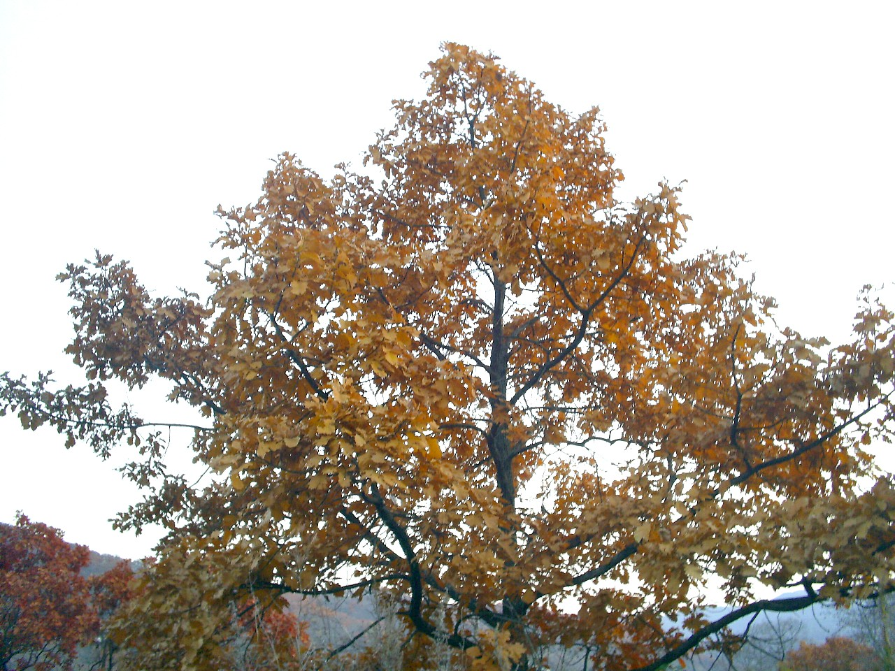 The Oak with Yellow Leaves in Sikhote-Alin